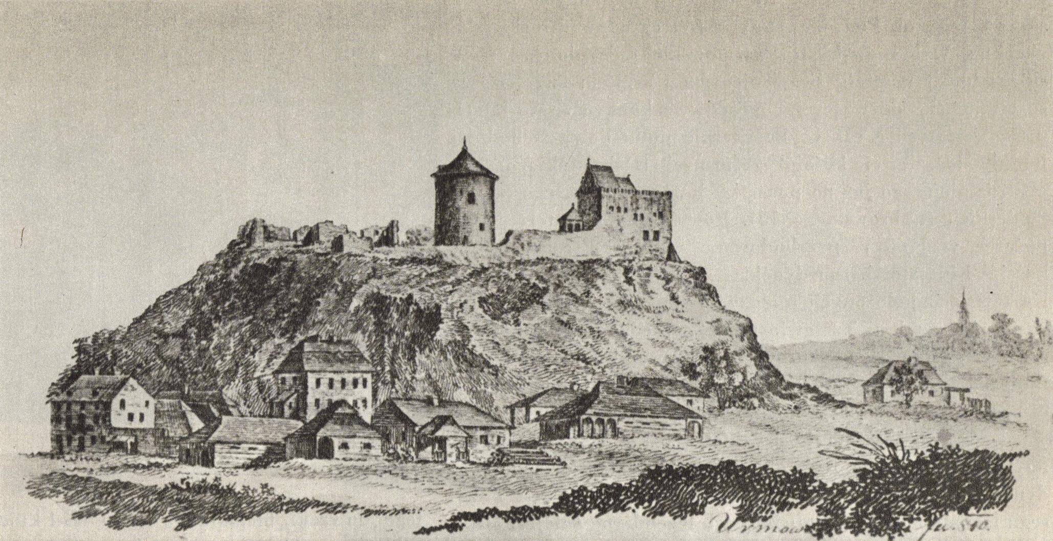 Lublin Castle Hill and the Jewish district in 1810.